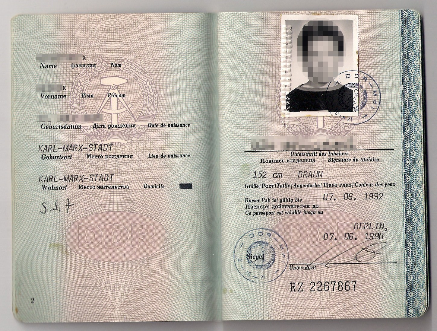 East German Passport